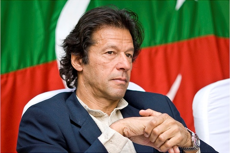 Imran Khan, December 2007